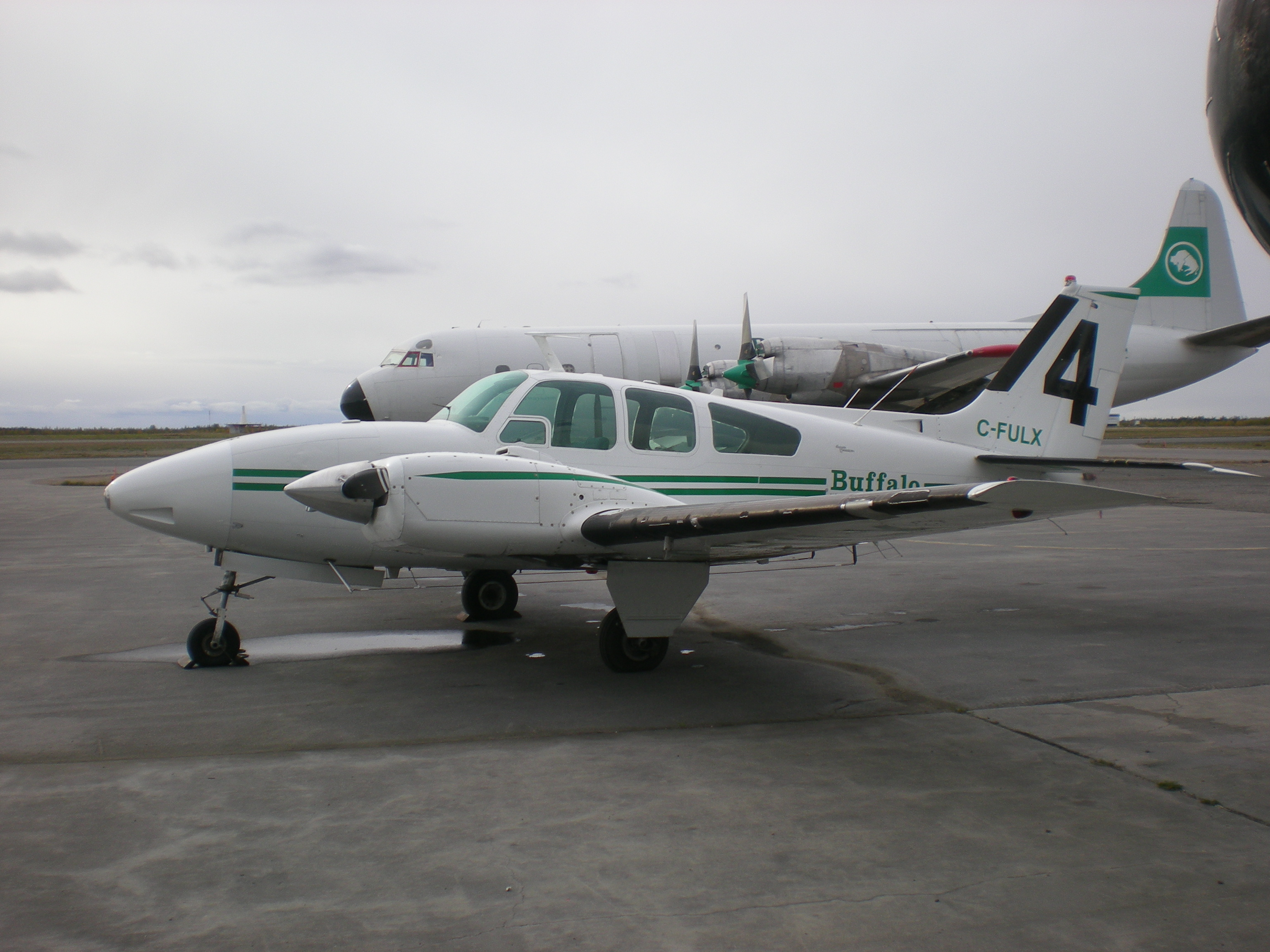 A Buffalo Airways Beechcraft Baron at Yellowknife, Northwest Territories, Canada. Among other things the BE95 is used as a spotter aircraft for the Canadair CL-215